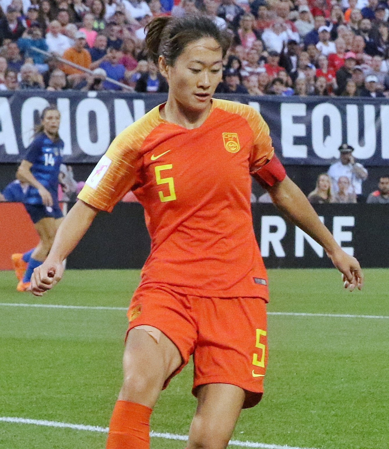 Wu Haiyan playing for the China women's national football team in a match against the United States women's national soccer team on June 12, 2018.